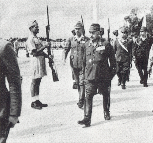 General Doihara Kenji inspecting troops belonging to the Indian National Army of Subhash Chandra Bose (Singapore, 1944)